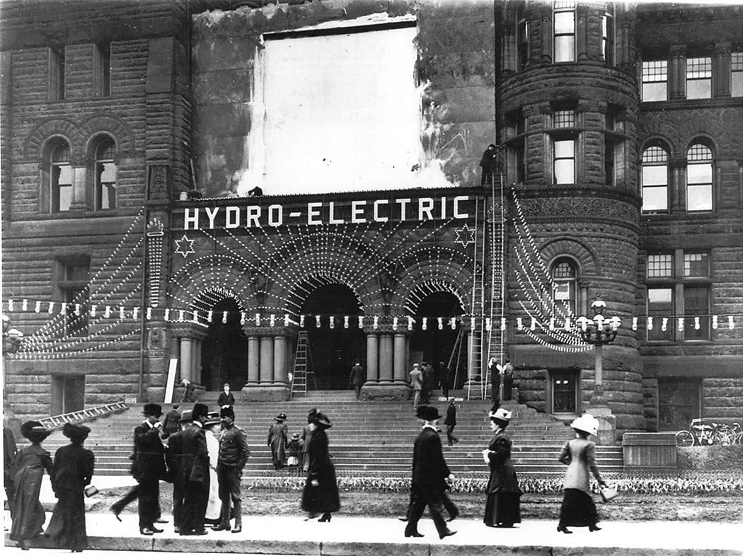 Inauguration of hydroelectric power in Toronto, City Hall. (Toronto, Canada)